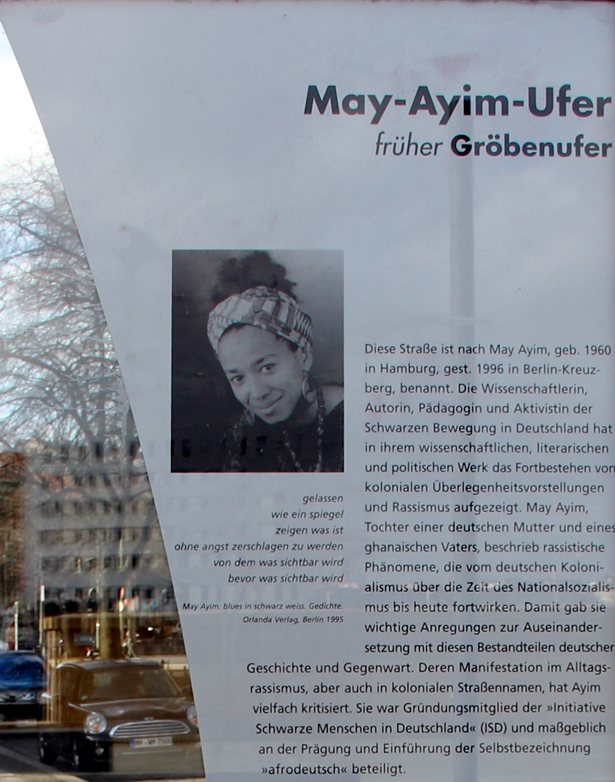 Memorial plaque, May Ayim, May-Ayim-Ufer, Berlin-Kreuzberg, Germany